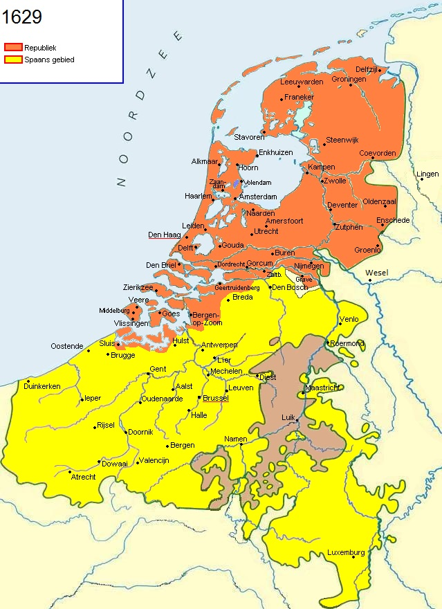 The Netherlands before the siege of 's-Hertogenbosch in 1629 by Frederick Henry, Prince of Orange